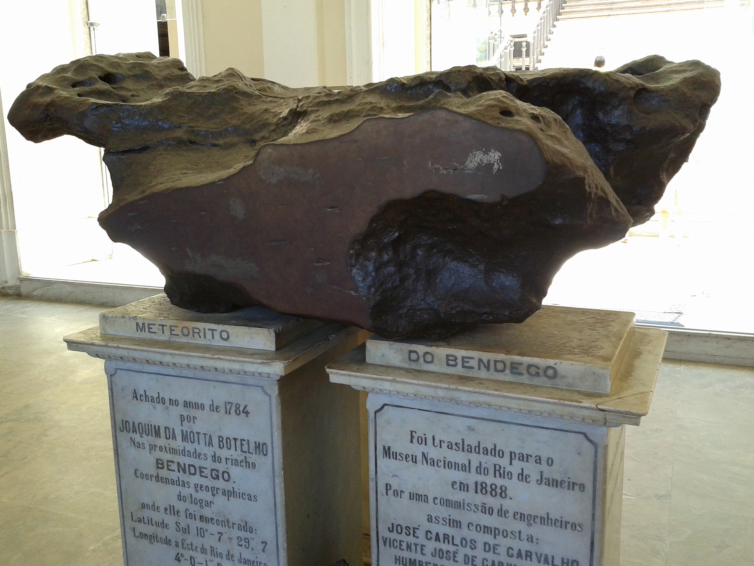 Found in Bahia in 1784, Bendegó is the largest siderite discovered in Brazil, being more than two meters in length and weighing 5.36 tons. It is constituted by a compact mass of iron and nickel. It is believed that the meteorite fell on Earth 100,000 years ago.